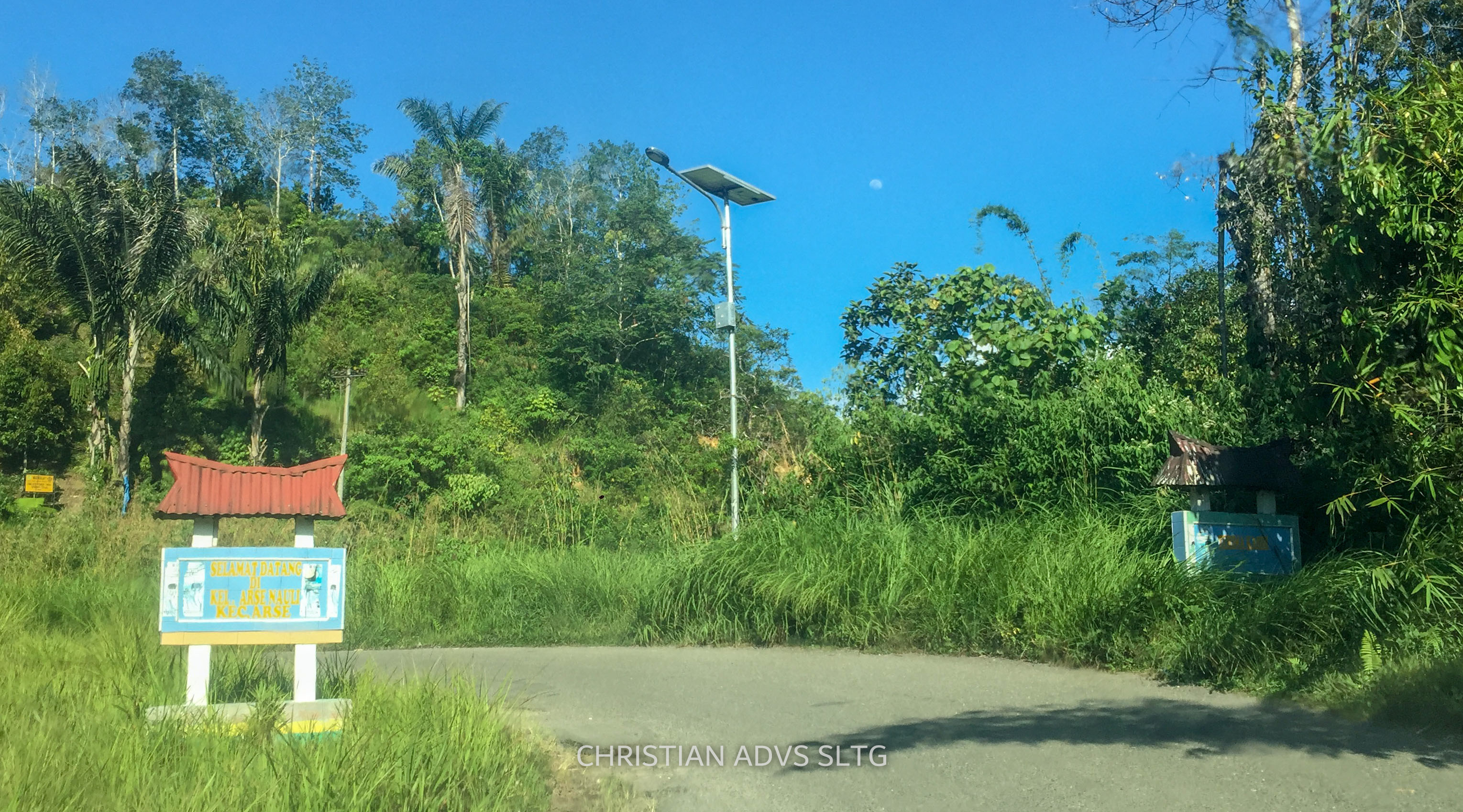 Welcome Gate to Arse Nauli, Arse, Tapanuli Selatan